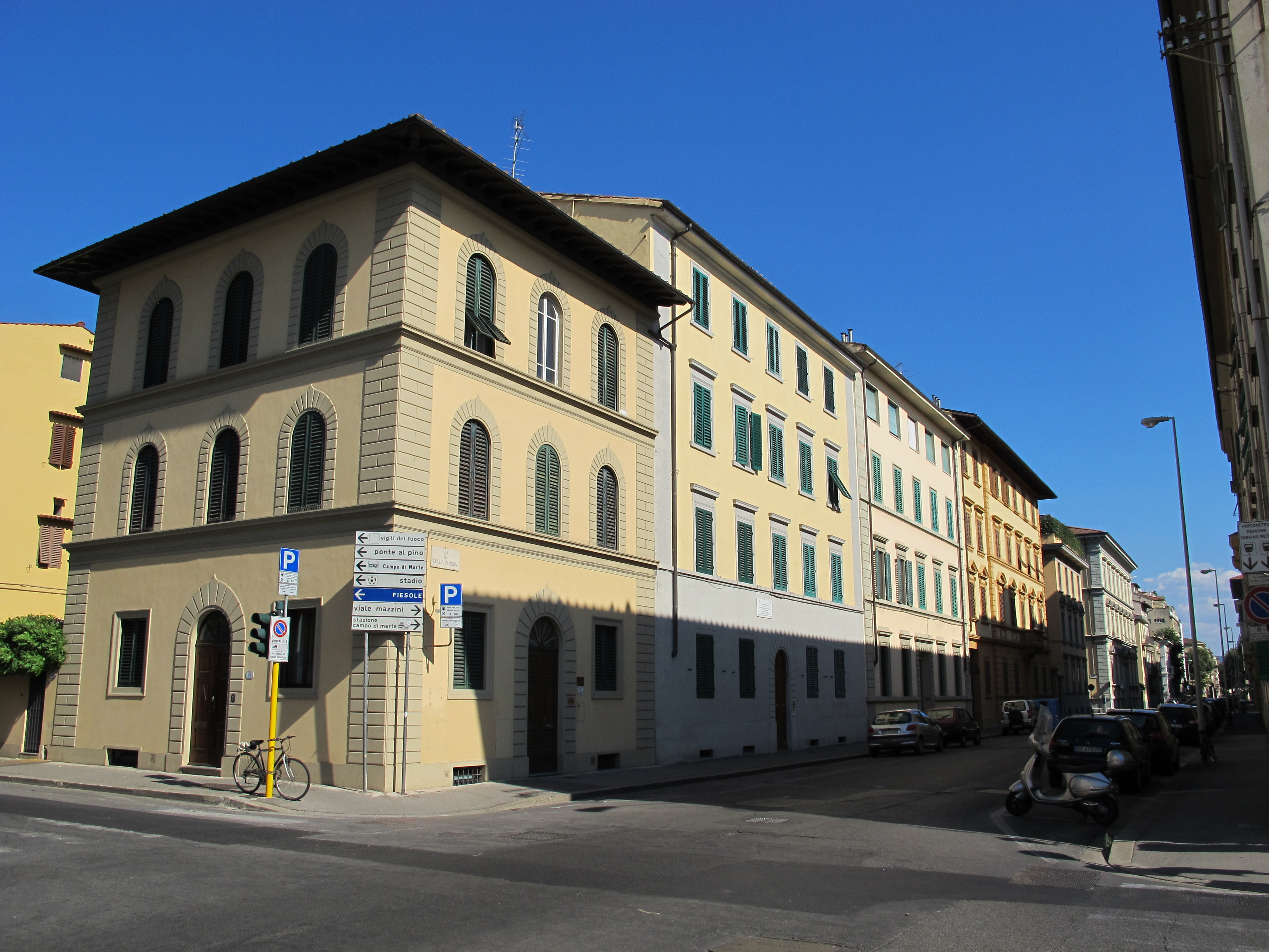 Florence, Italy (see filename)